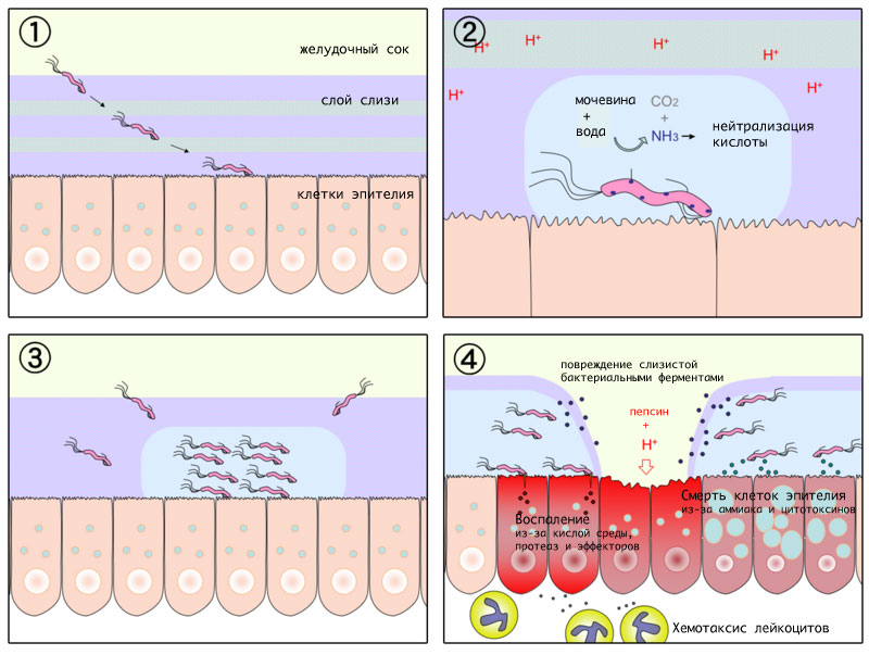 Diagram of gastric ulceration by H. pylori, with russian annotation